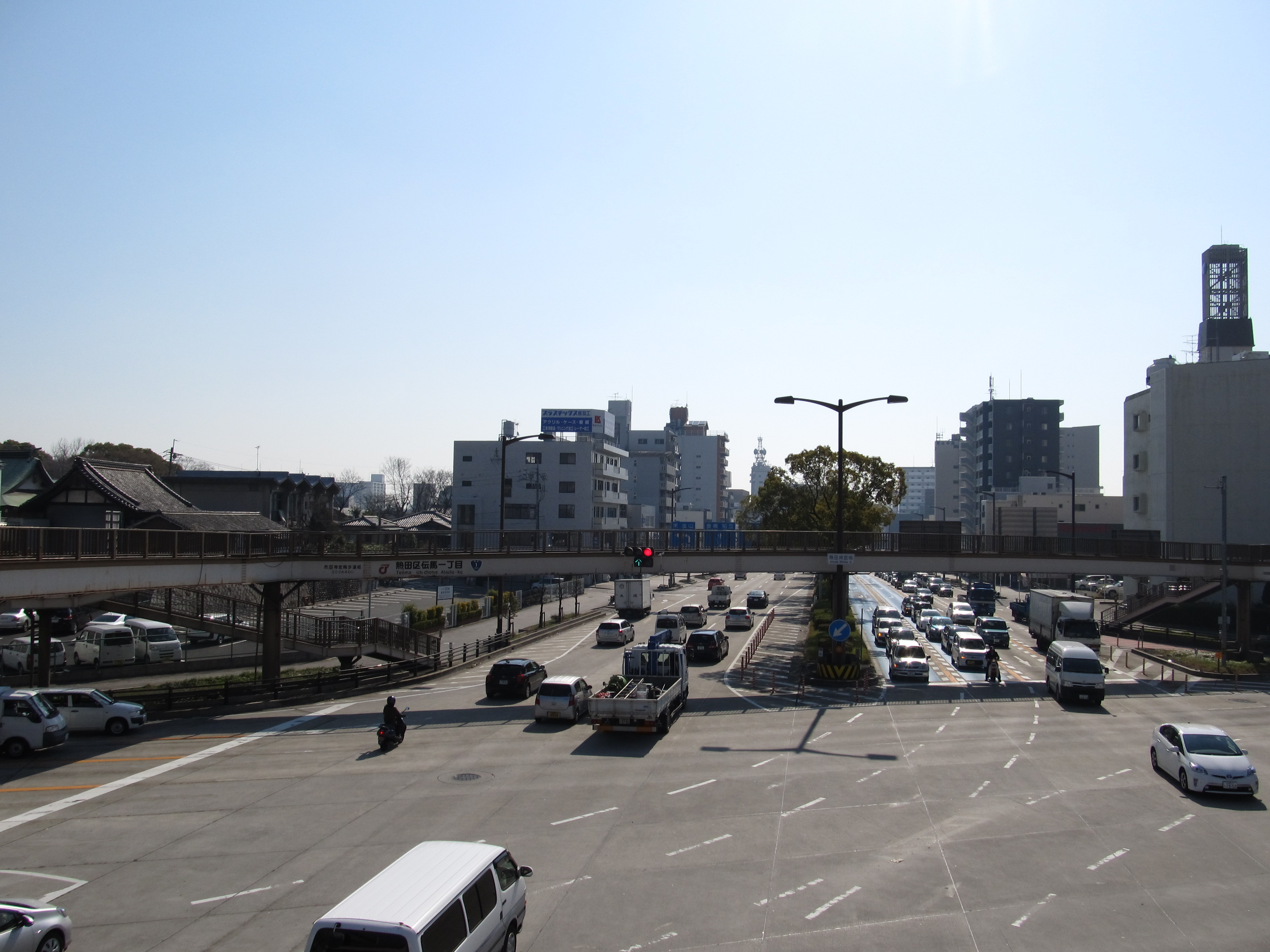 Japan National Route 1 Atsuta Shrine South (Atsuta jingū minami) crossing at Atsuta-ku, Nagoya city, Aichi prefecture. Starting point of Route 19 and Route 247 is here.